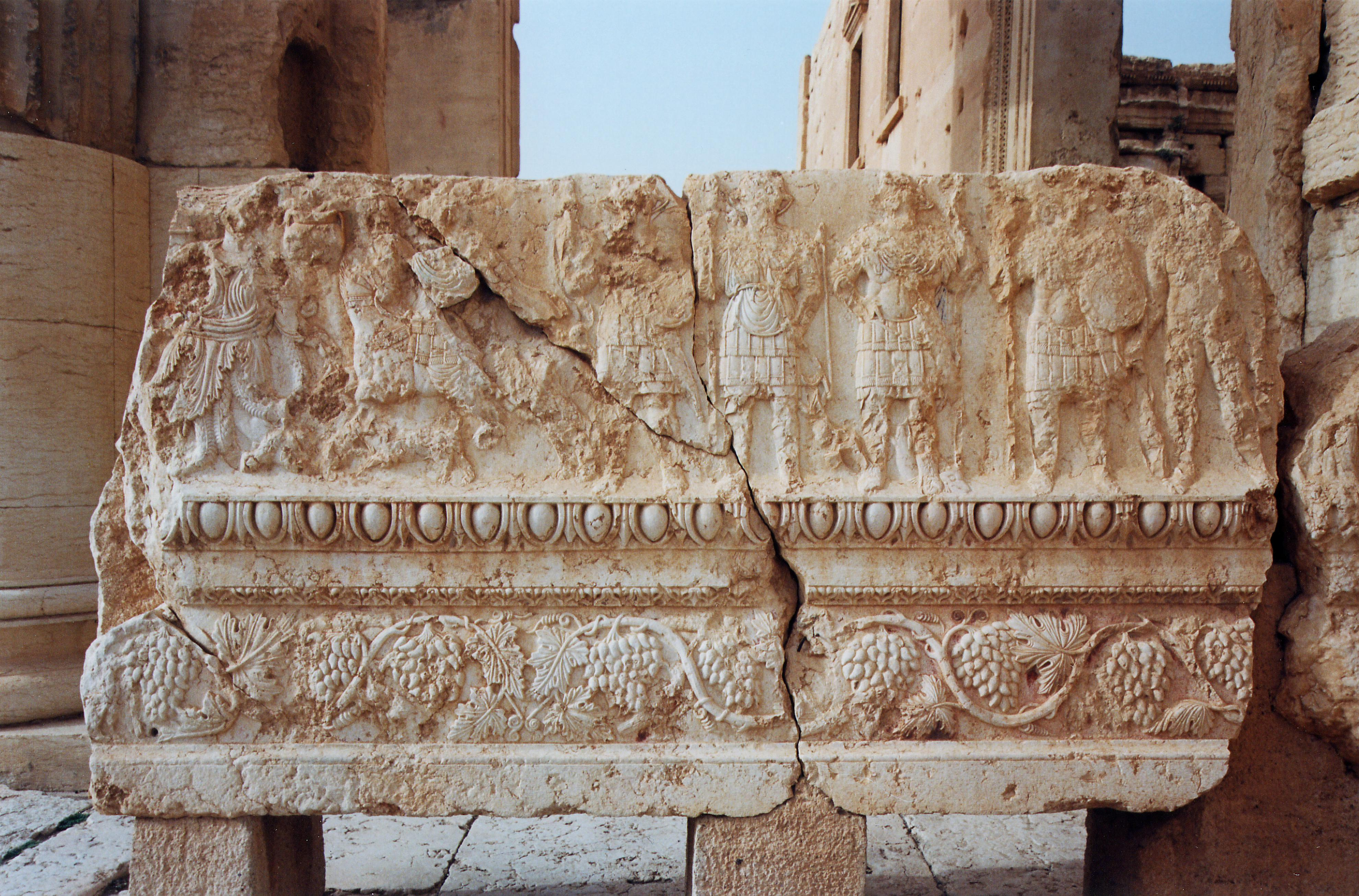 Temple of Baal, frieze with Gods sequence, detail, Palmyra in 2002